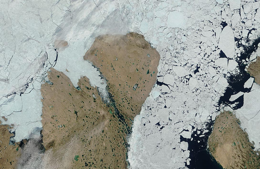 Terra MODIS satellite image of Stefansson Island, Canada.